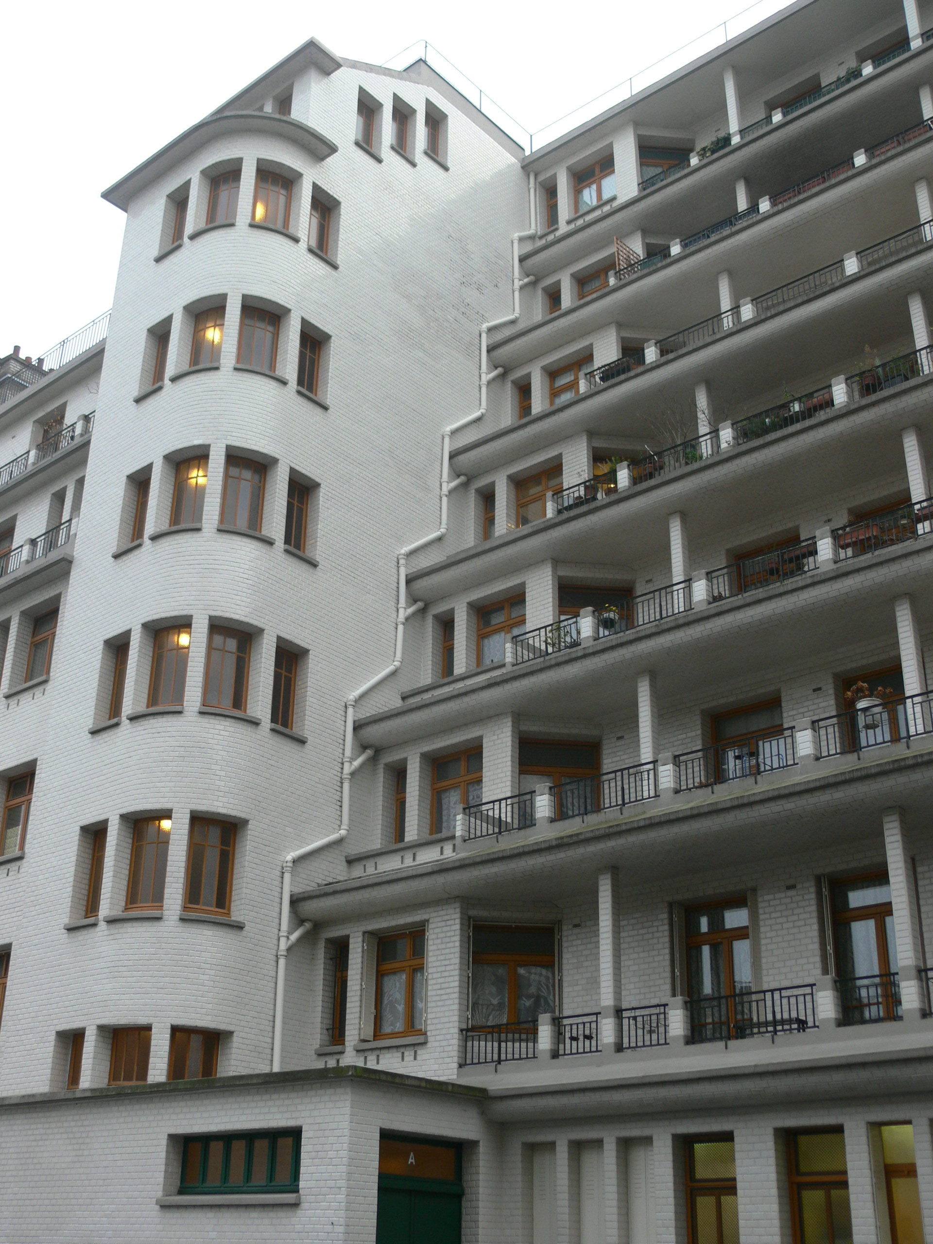 Amiraux building and swimming-pool (Architect: Henri Sauvage)